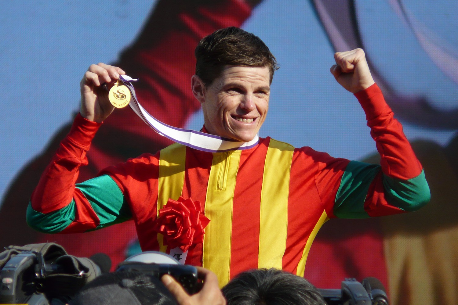 Craig-Williams20100502